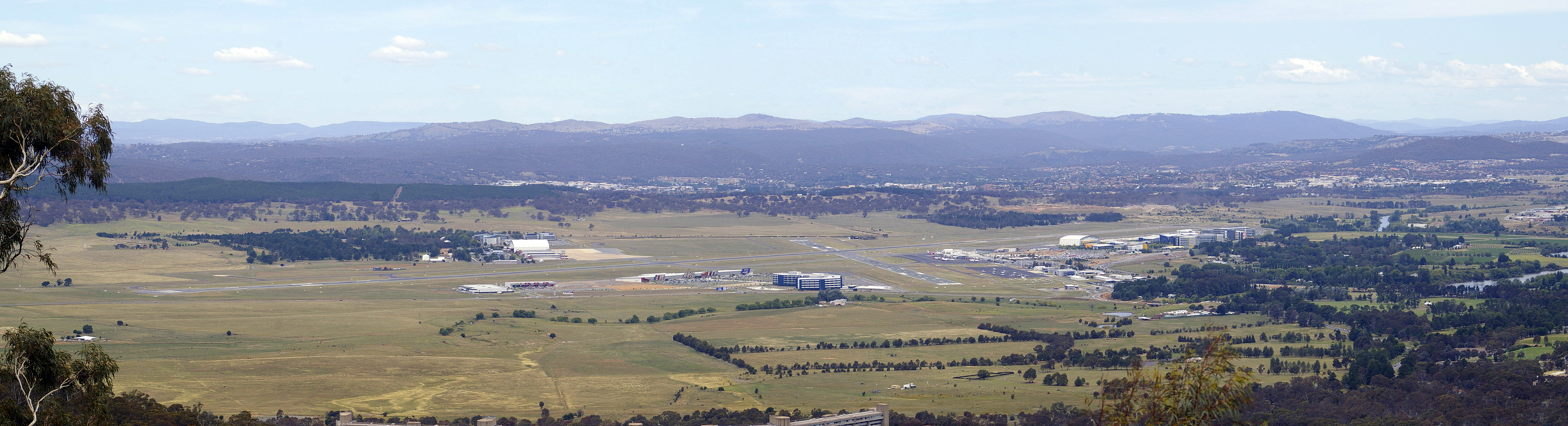 View of the Canberra suburbs of Fairbairn with Pialligo to the right of the photograph and Queanbeyan, New South Wales in the background viewed from Mount Ainslie (Looking southeast from the lookout).